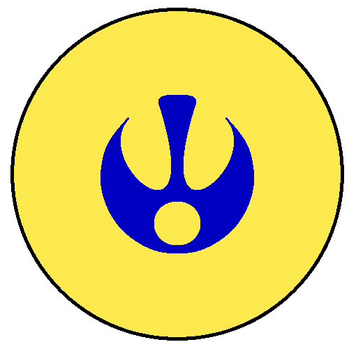 Shield pattern of Legio I Armeniaca in the early 5th century. Source: Notitia Dignitatum Orientis VII